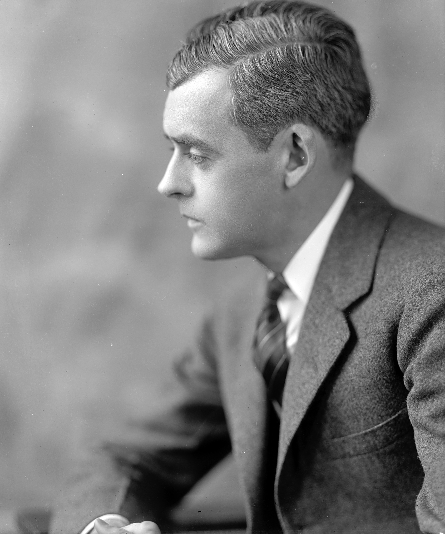 Allen J. Furlow, US Representative from Minnesota